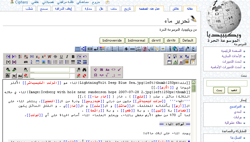 A snapshot of Arabic Wikipedia while using WikEd